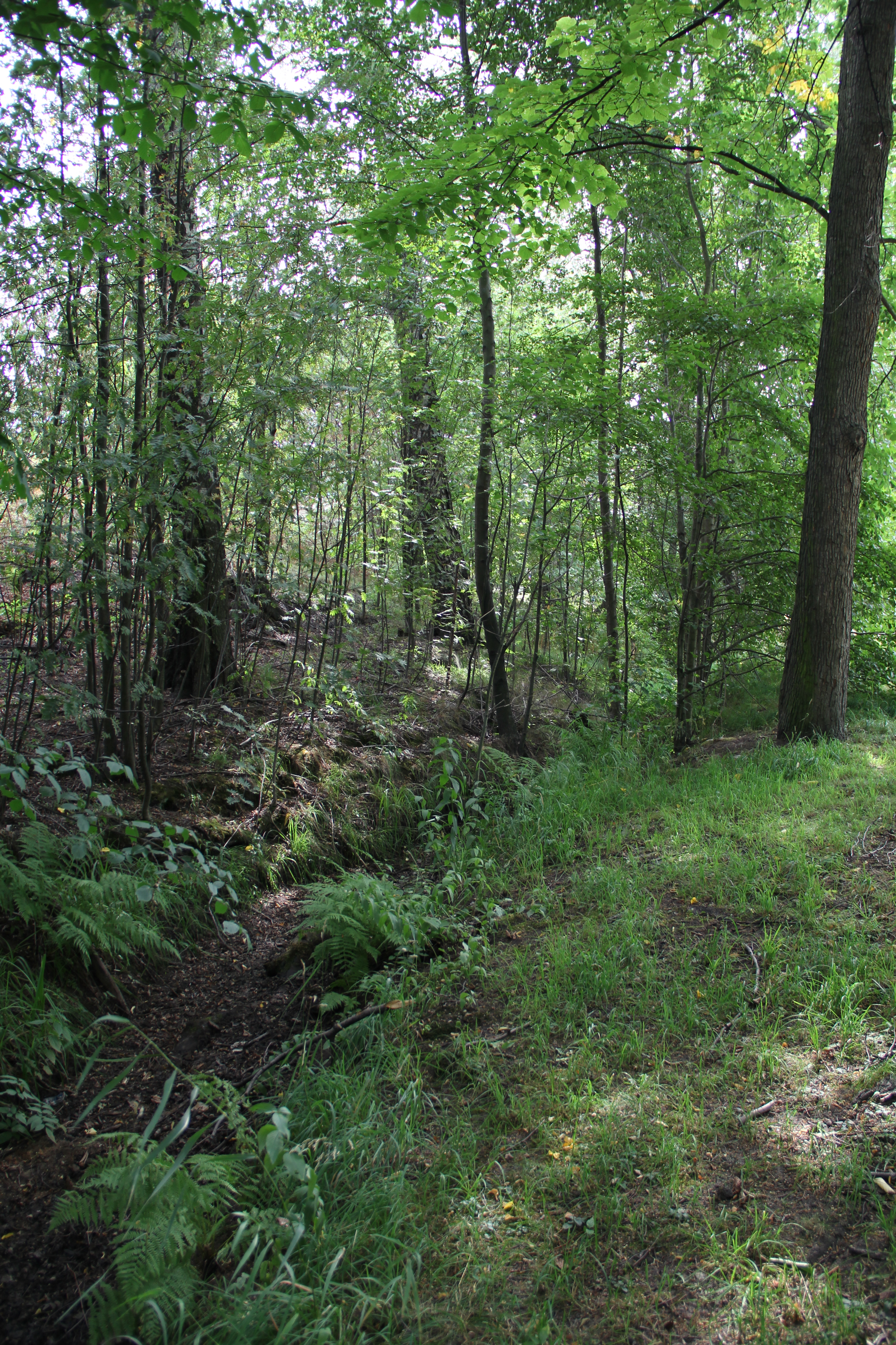 Dried river Töölönjoki in Taka-Töölö, Helsinki. Finland.